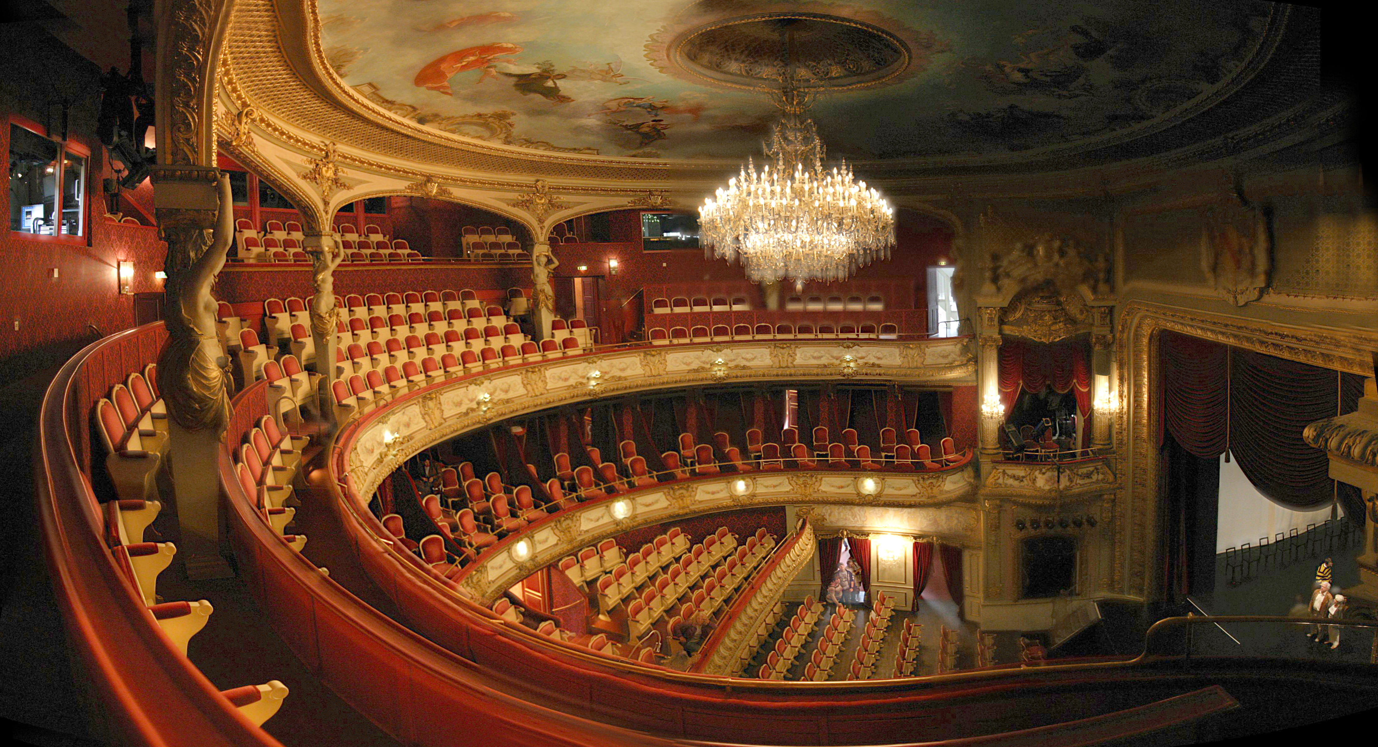 Municipal theatre Baden-Baden, Germany. Audience room.